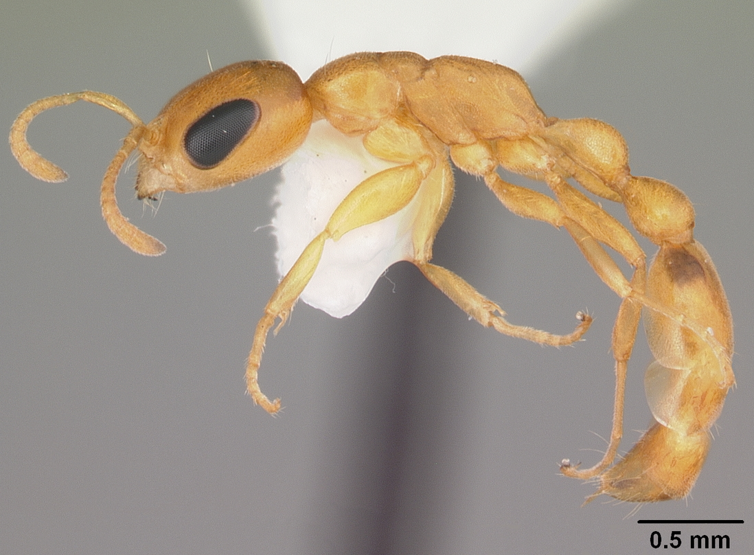 Profile view of ant Pseudomyrmex pallidus specimen casent0103890.